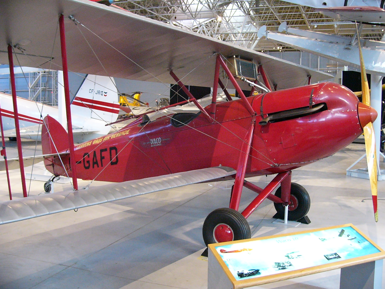 WACO 10 in the Canada Aviation Museum, Ottawa, Ontario, Canada